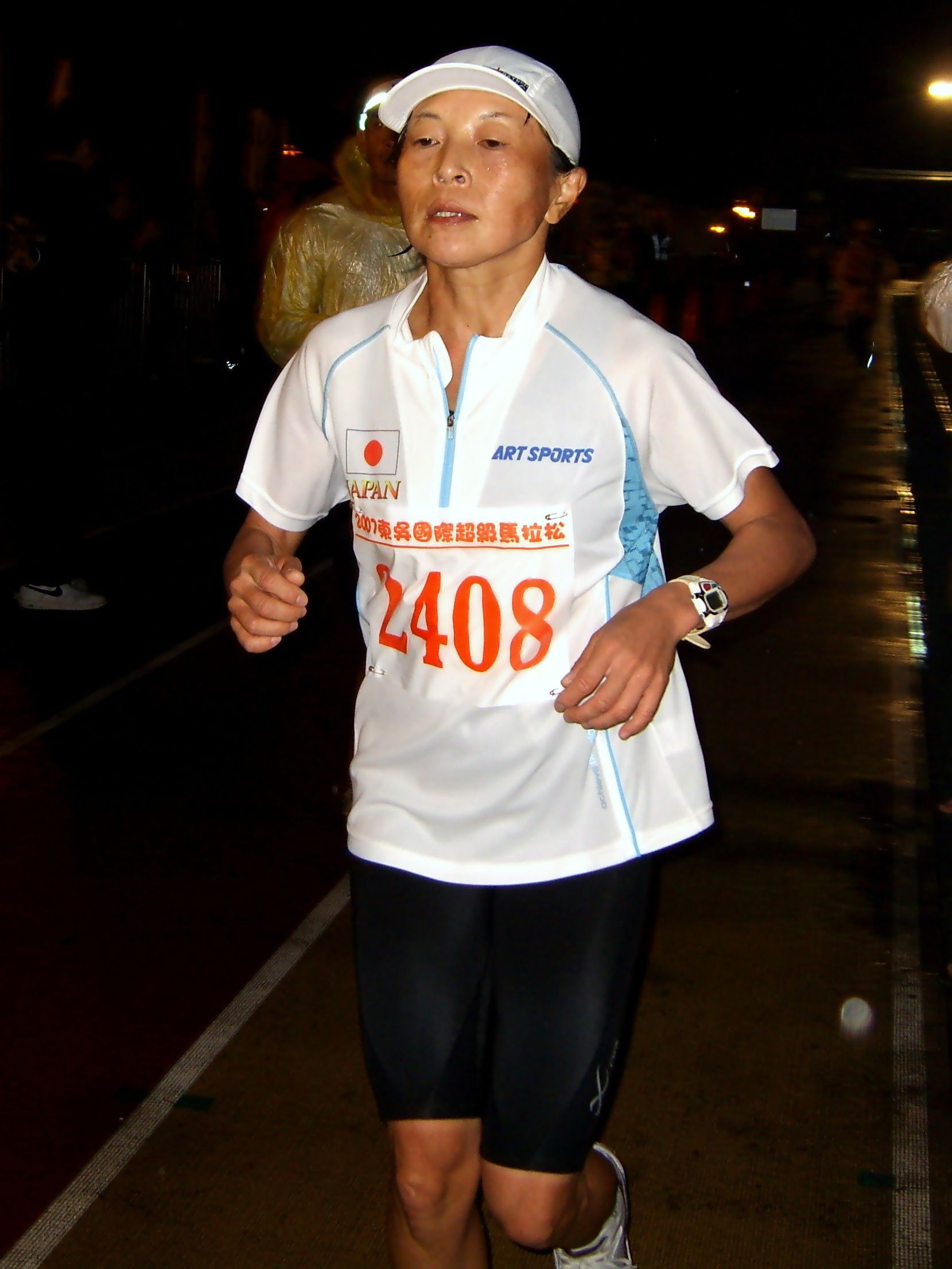 2007 Soochow International 24h Ultra-Marathon: Sumie Inagaki (Japan).